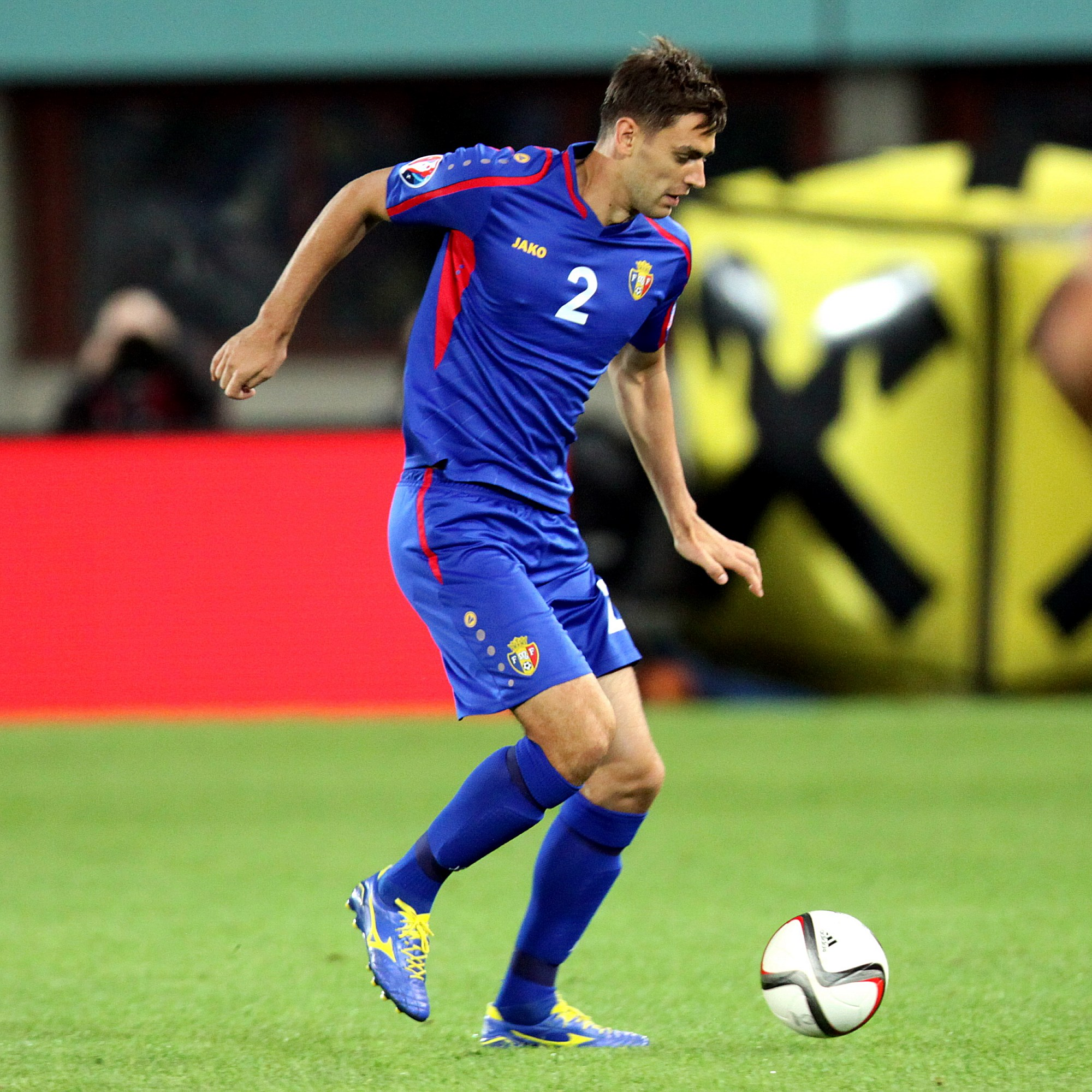 UEFA Euro 2016 qualifying, Group G – Austria national football team (red shirts) vs. Moldova national football team (blue shirts) on 2015-09-05 in Ernst-Happel-Stadion, Vienna: The photo shows Igor Armaș